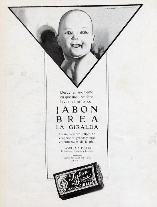 Soap Brea La Giralda